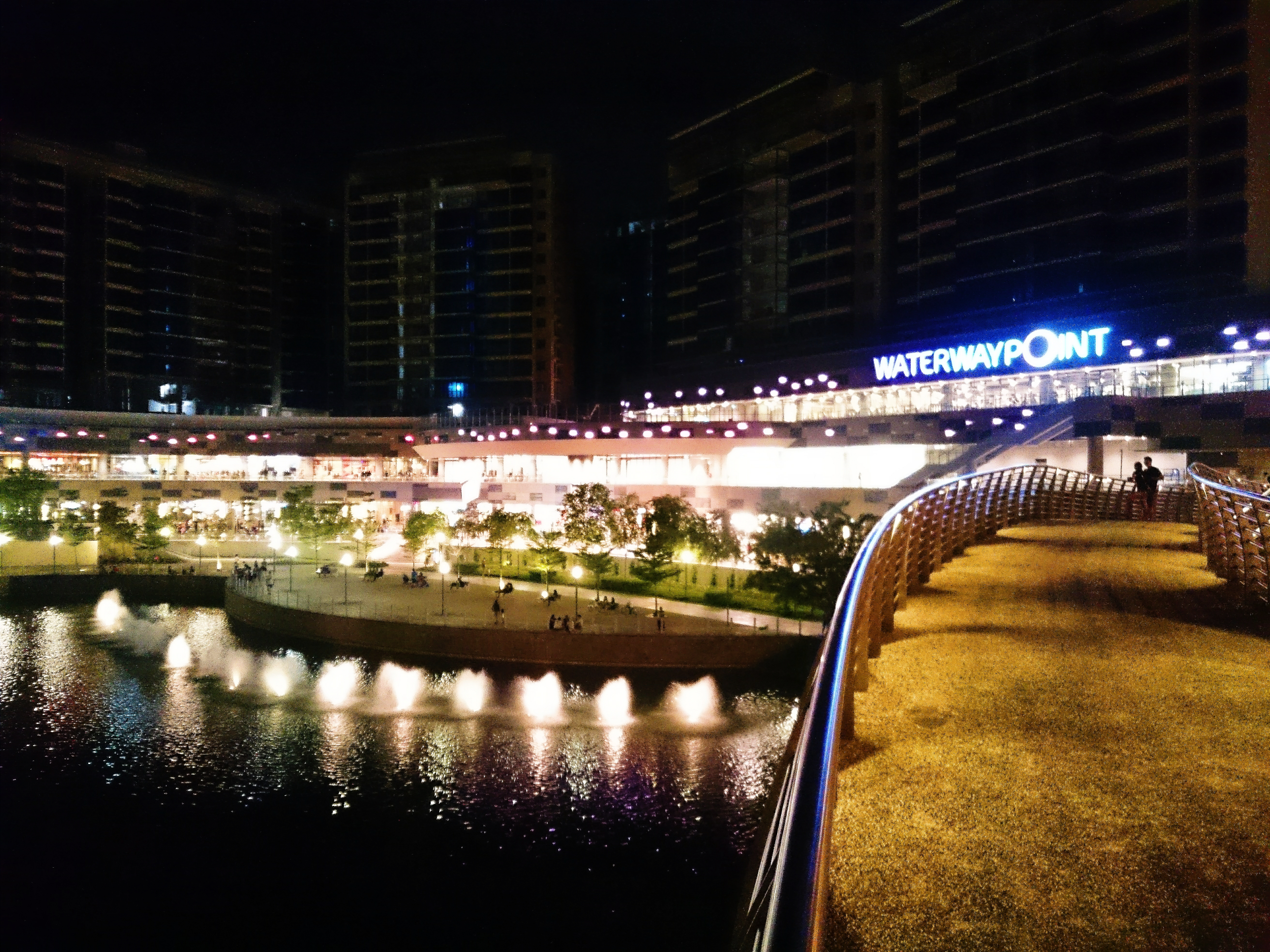 Taken at Waterway Point, with Xperia Z3